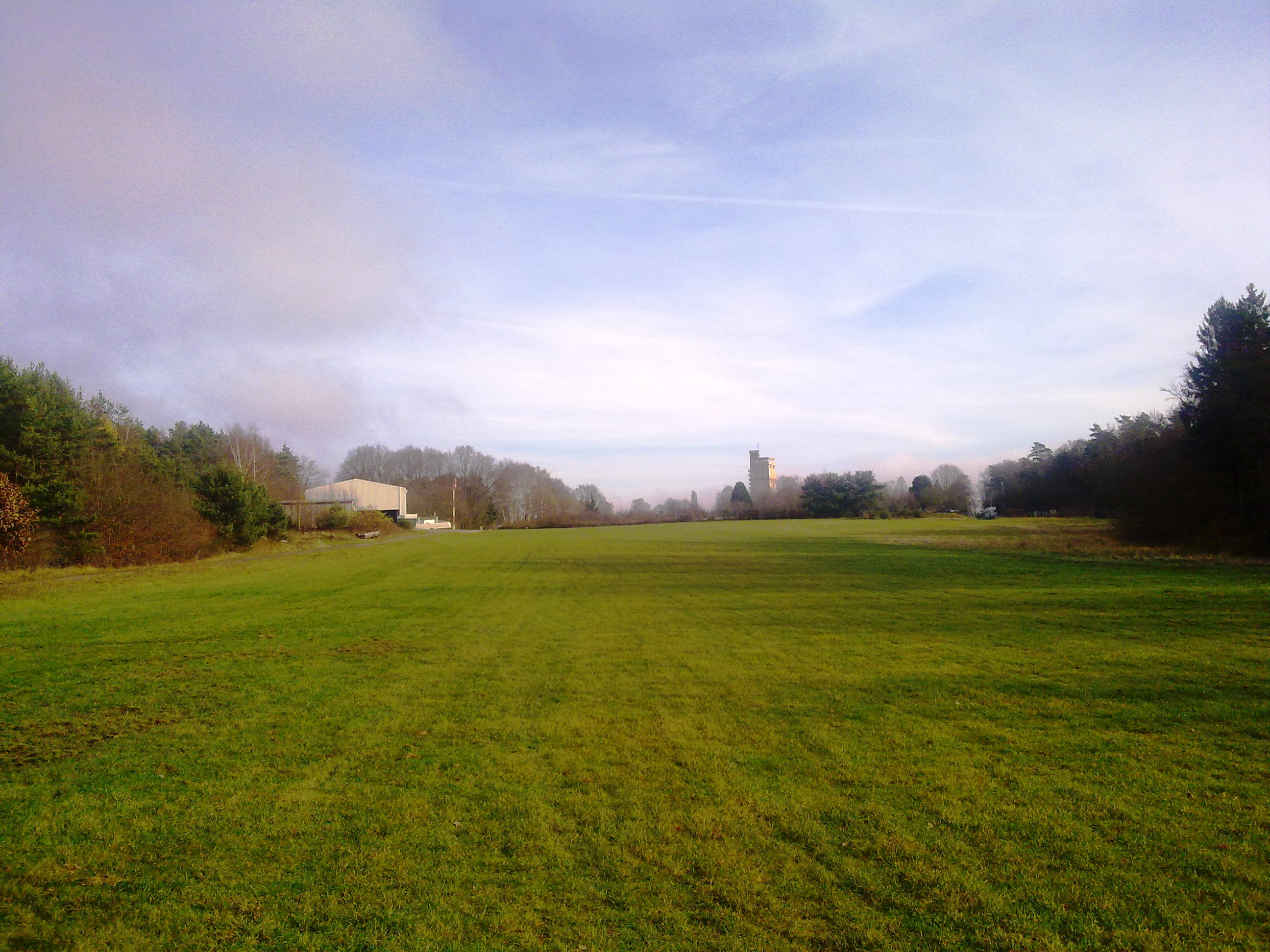 Blick in Richtung Schwelle 24